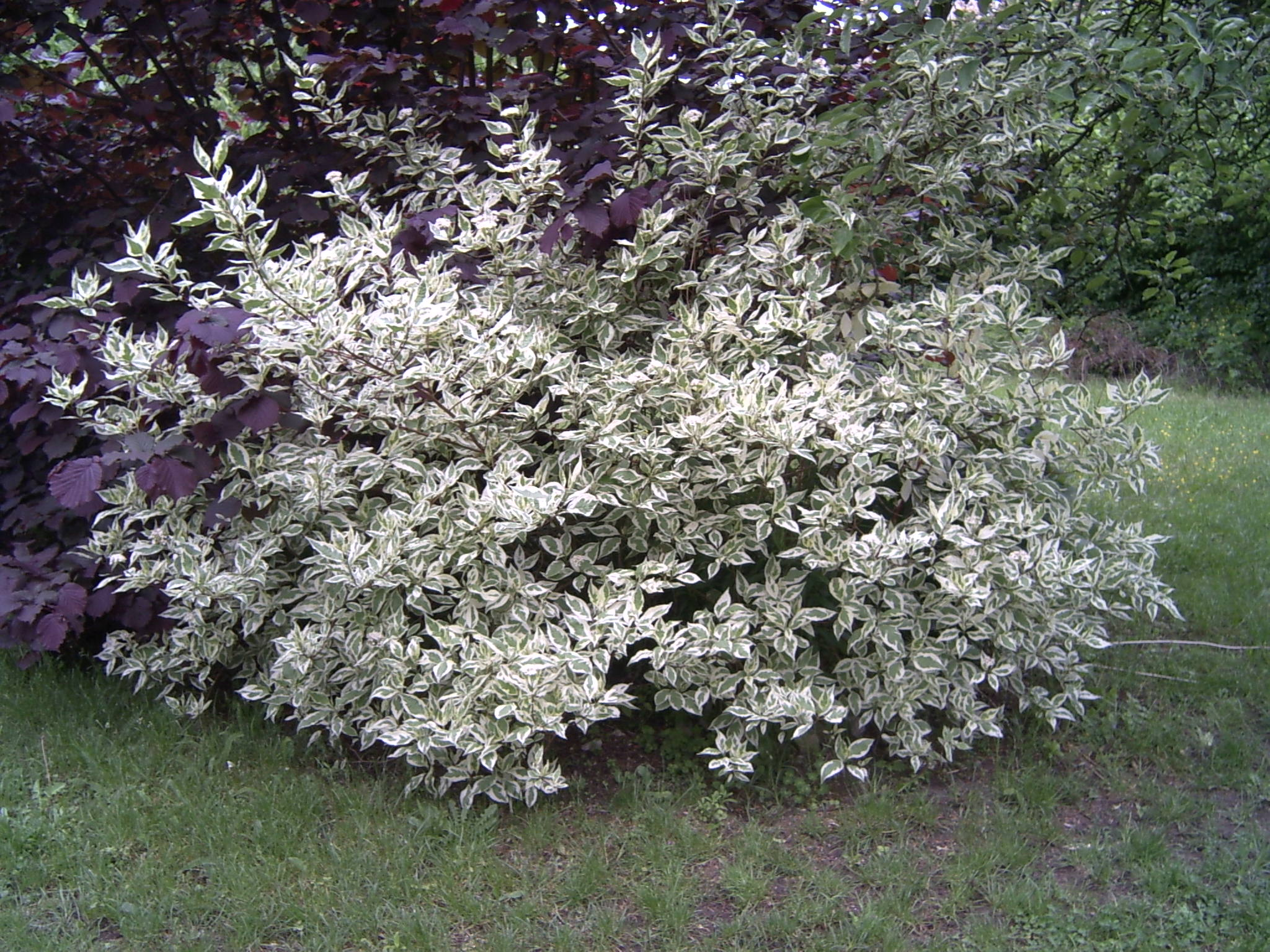 Cornus sericea cv. 'Silver and Gold'